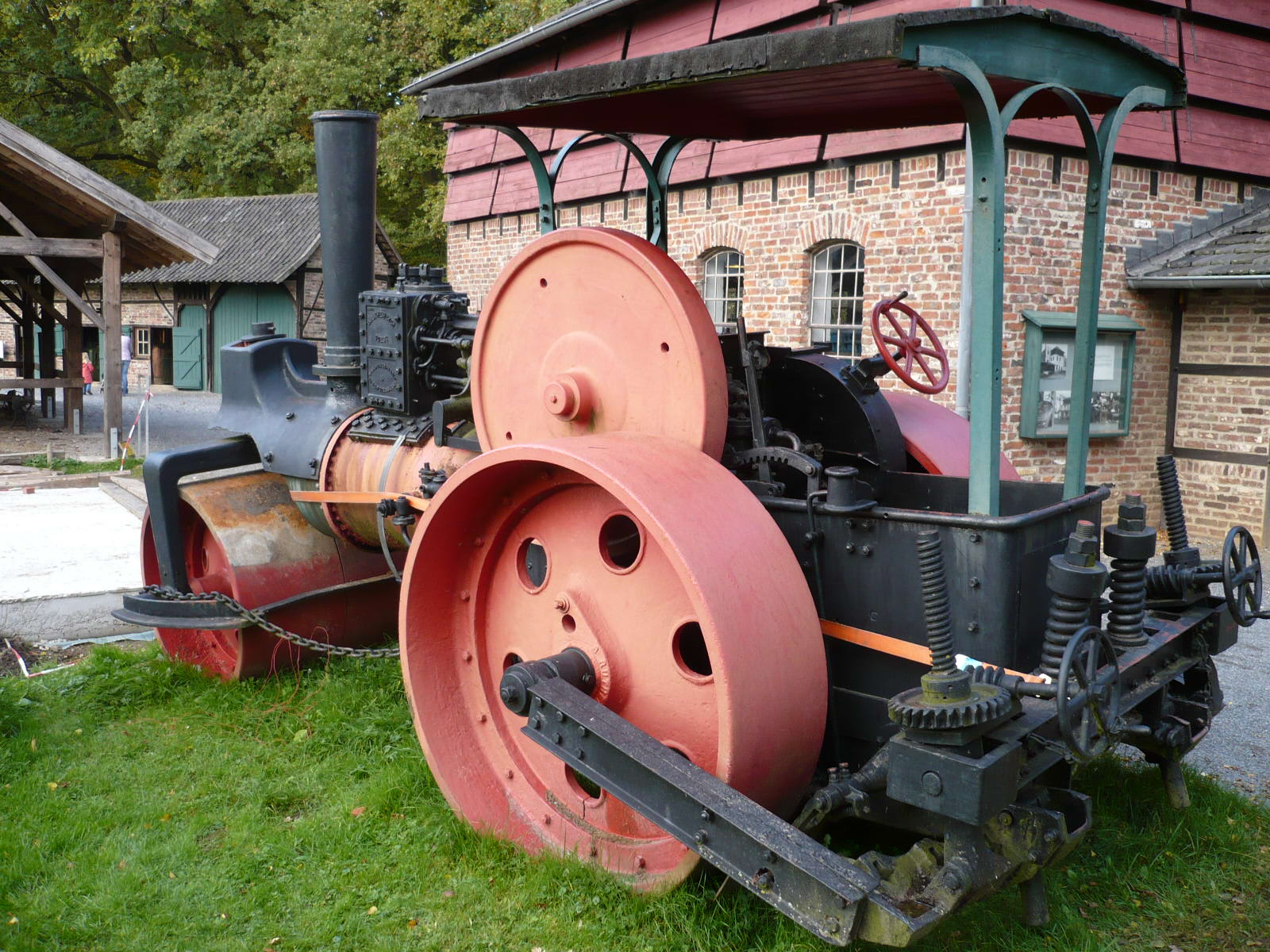 Steam roller built by company B. Ruthemeyer, Soest, Germany, located in the Outdoor Museum Dorenburg Grefrath